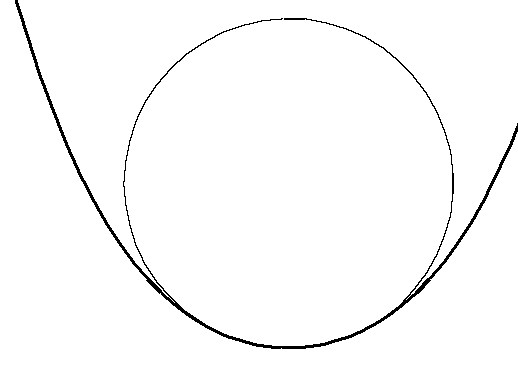 A vertex of a curve and circle with 4-point contact. Author R. Morris Created using SingSurf Using equation X = x; Y = a x^2 + b x^3 + c x^4; Z = 0; a = 0.5; b=0.0; c=0.1; and a unit circle